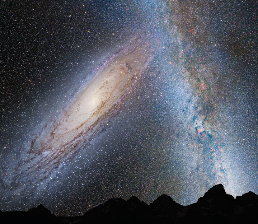 A close-up view of what the future Milky Way–Andromeda collision may look like in its early stages. NASA description: This illustration shows a stage in the predicted merger between our Milky Way Galaxy and the neighboring Andromeda Galaxy, as it will unfold over the next several billion years. In this image, representing Earth's night sky in 3.75 billion years, the Andromeda Galaxy (left) fills the field of view, and begins to distort the Milky Way with tidal pull.